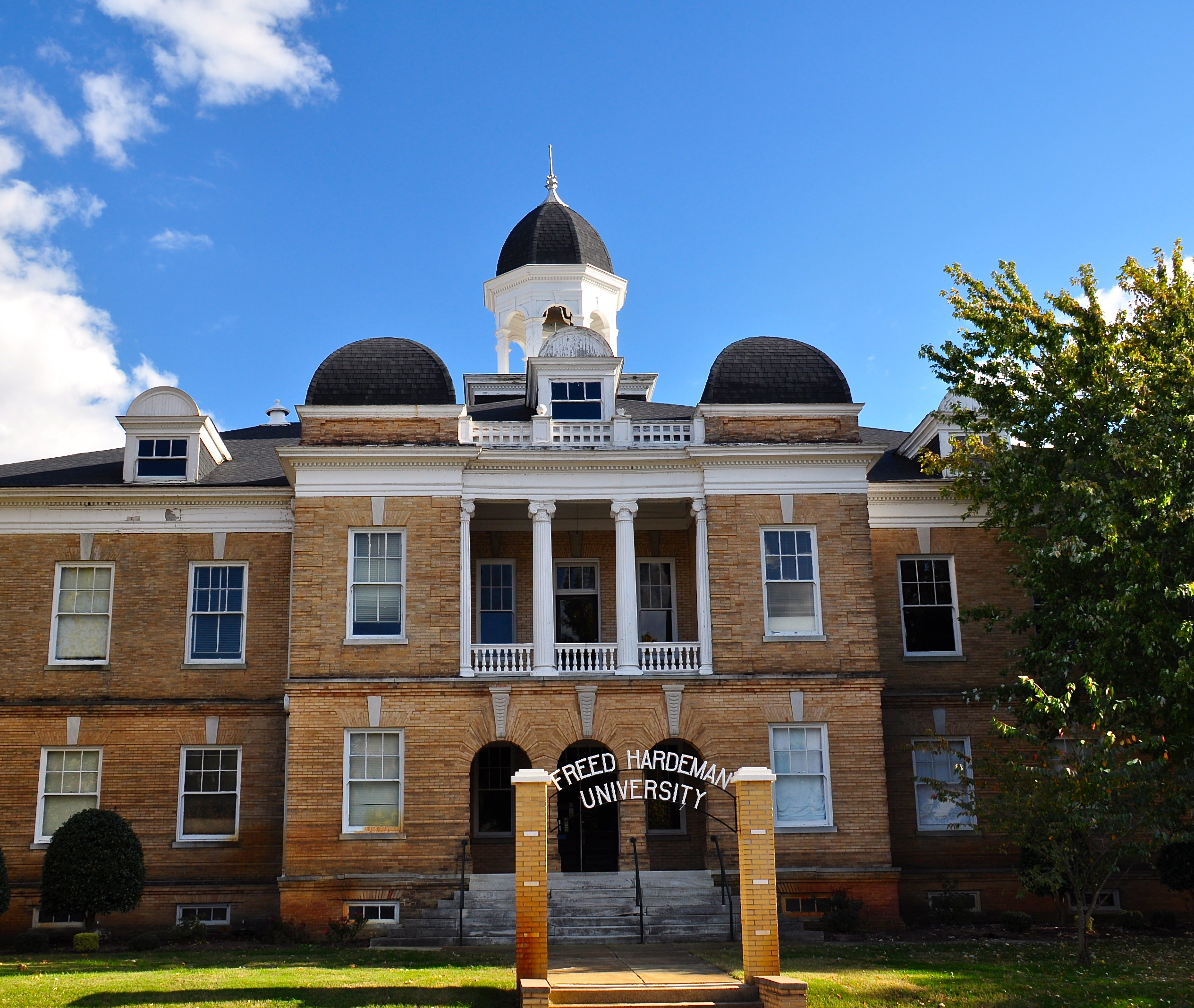 The National Teacher's Normal and Business College Administration Building now known as the Freed-Hardeman University Old Administration Building. Located in Henderson, Chester County, Tennessee.